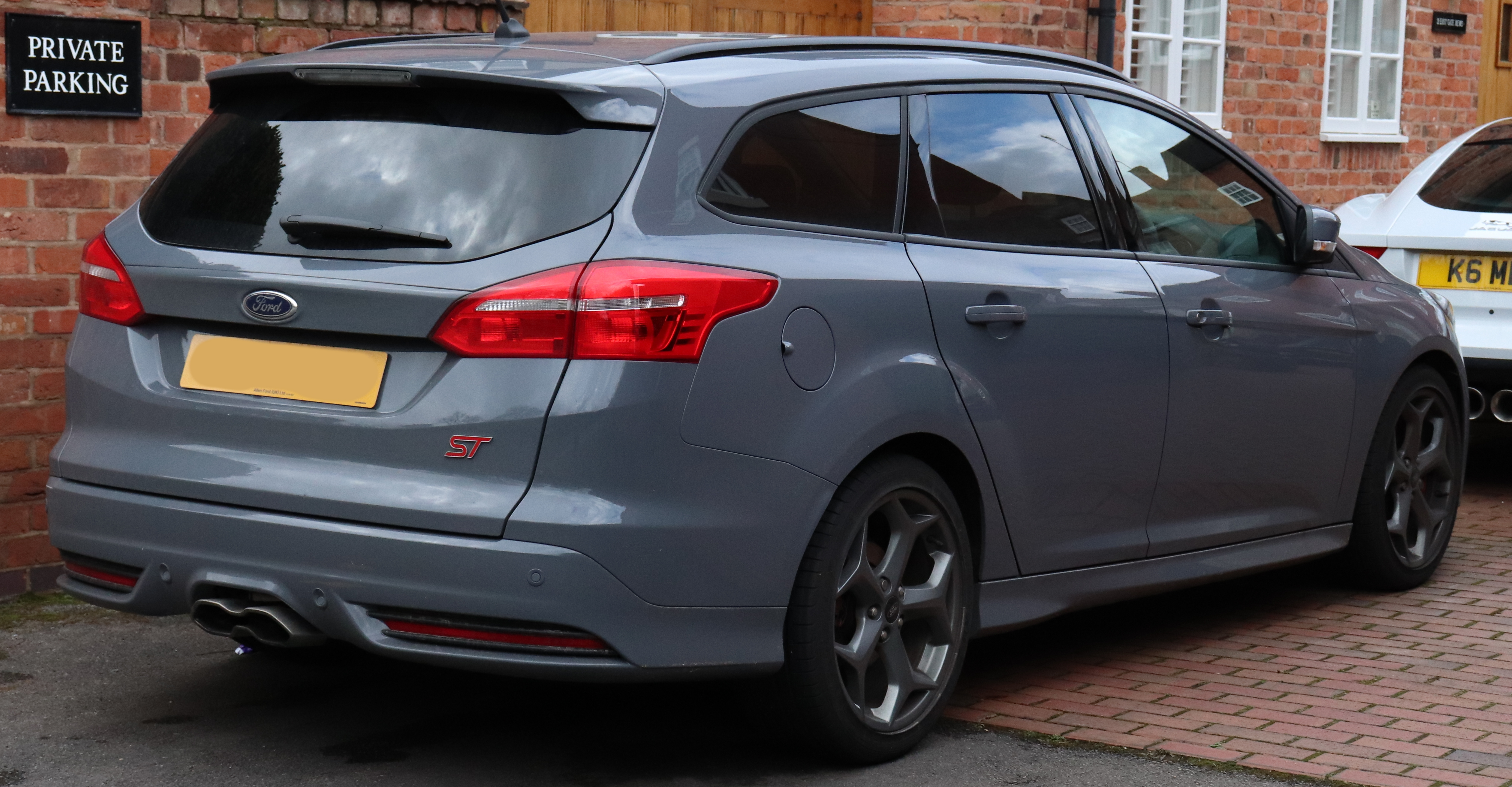 2017 Ford Focus ST-3 Turbo Estate 2.0 Taken in Warwick